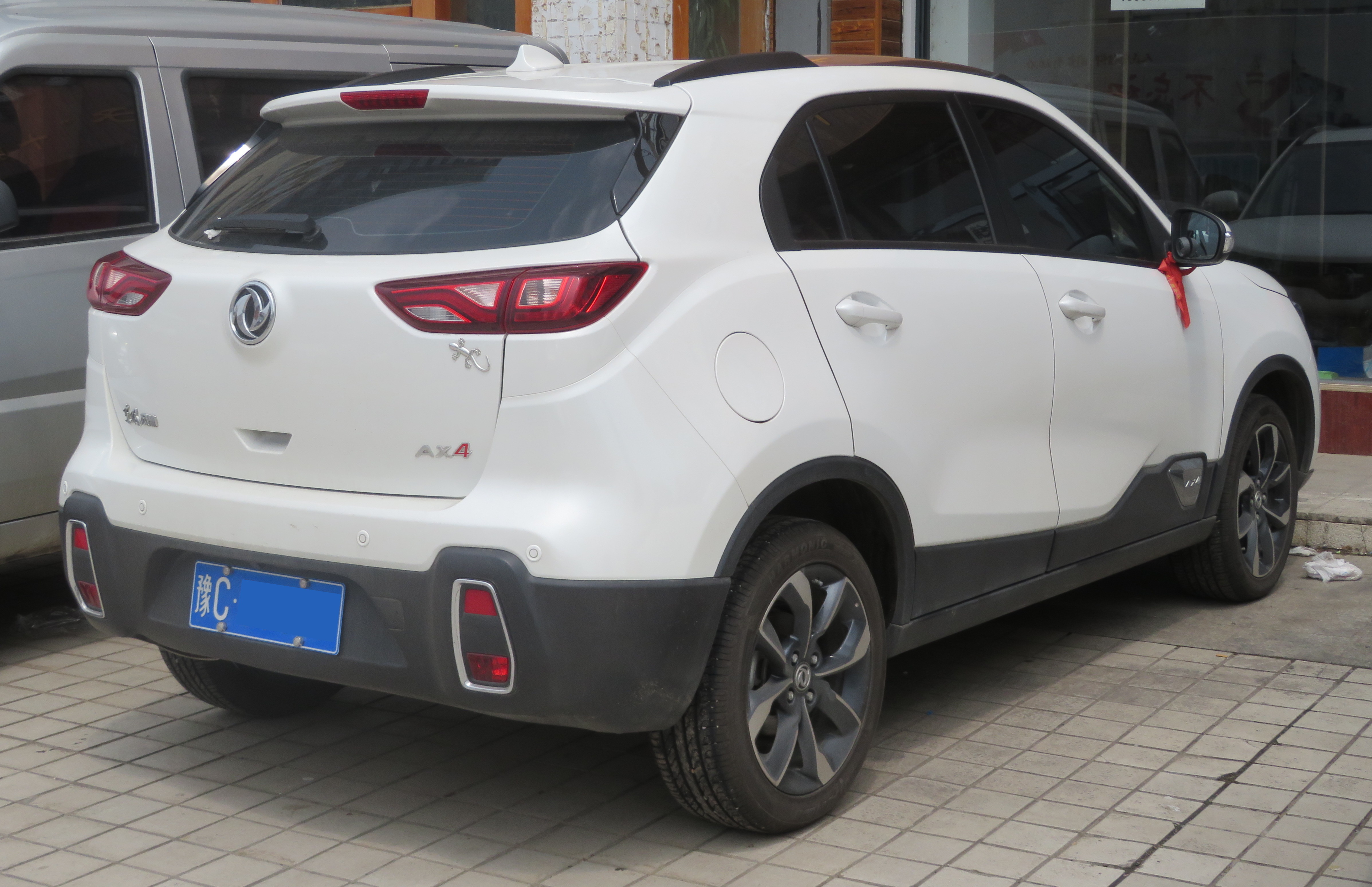 Photographed in Luoyang, Henan province, China